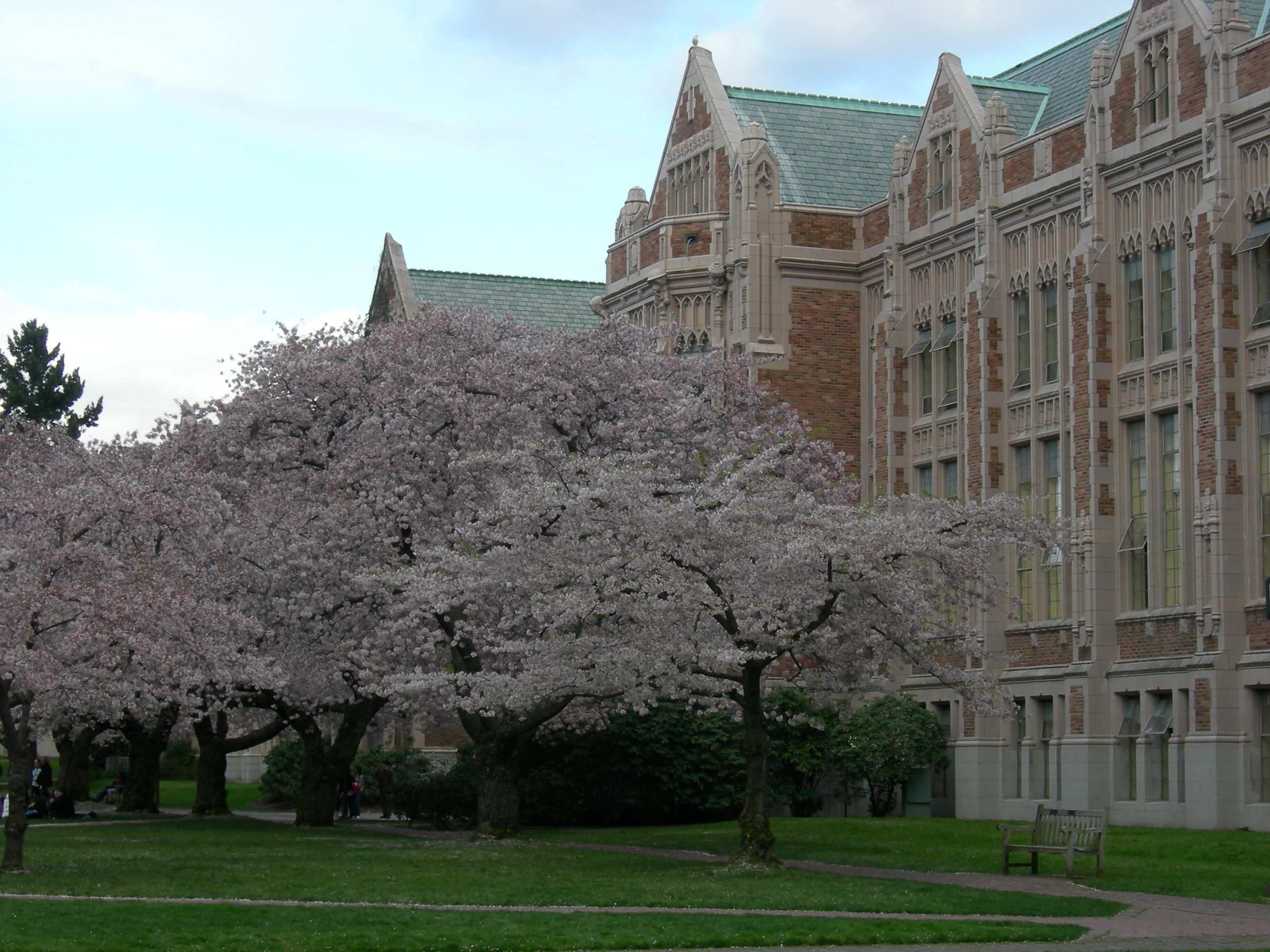 Cherry blossom time in the Quad, University of Washington, Seattle, Washington.